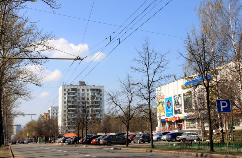 Sireneviy Boulevard in Moscow, Russia